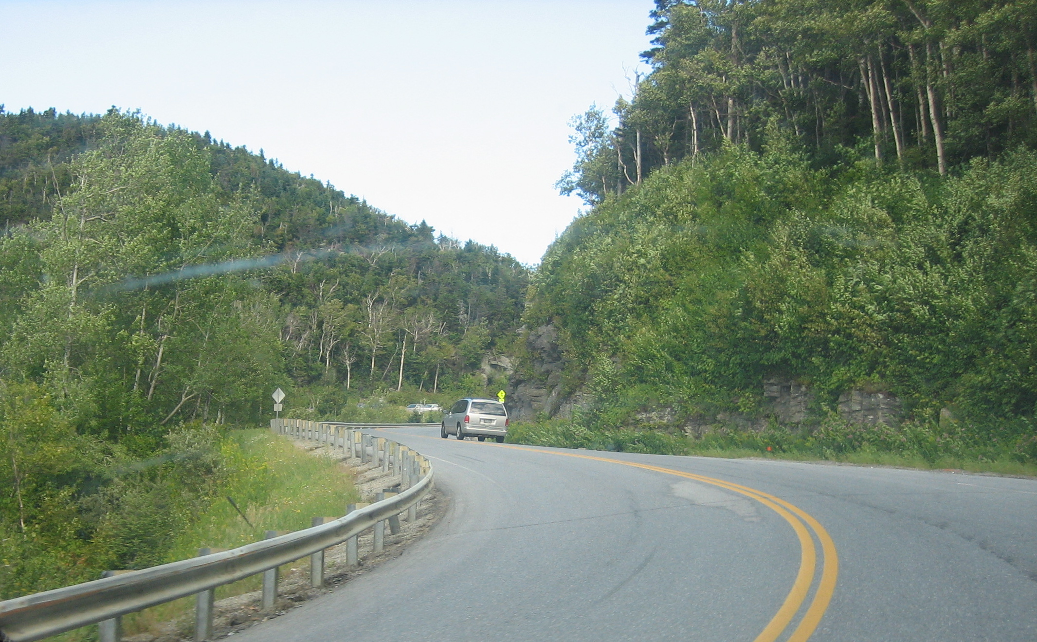 Glimpse of the Appalachian Gap in Buels Gore Vermont from Route 17 heading East.